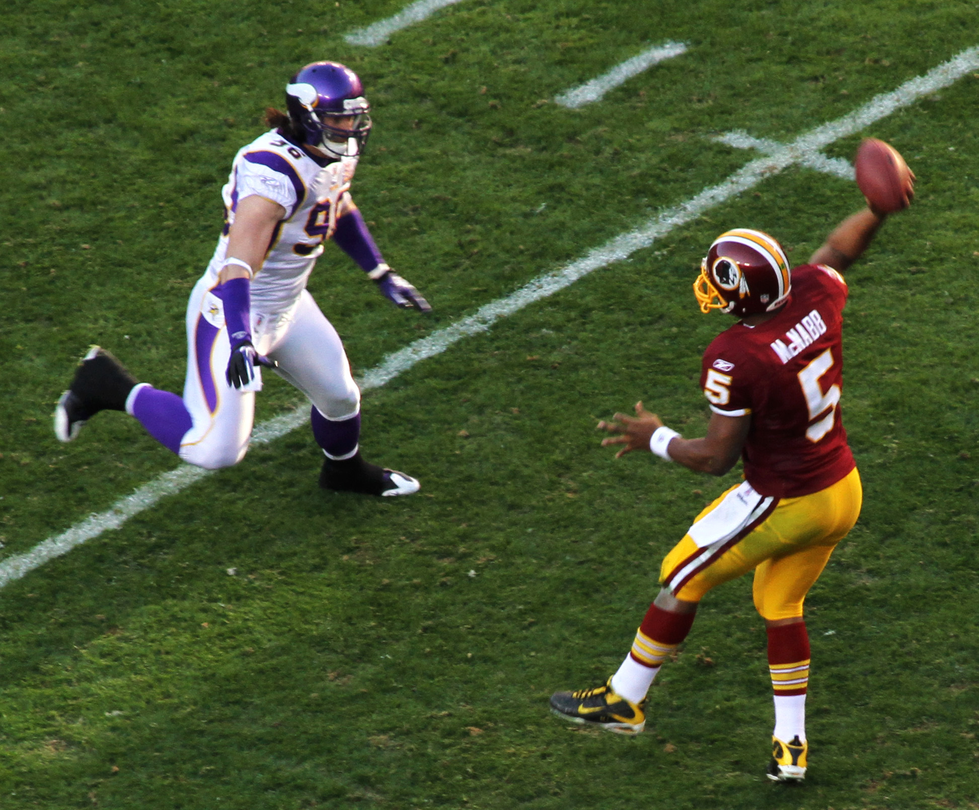 Minnesota Vikings defensive end Brian Robison against Washington Redskins quarterback Donovan McNabb during the 2010 match